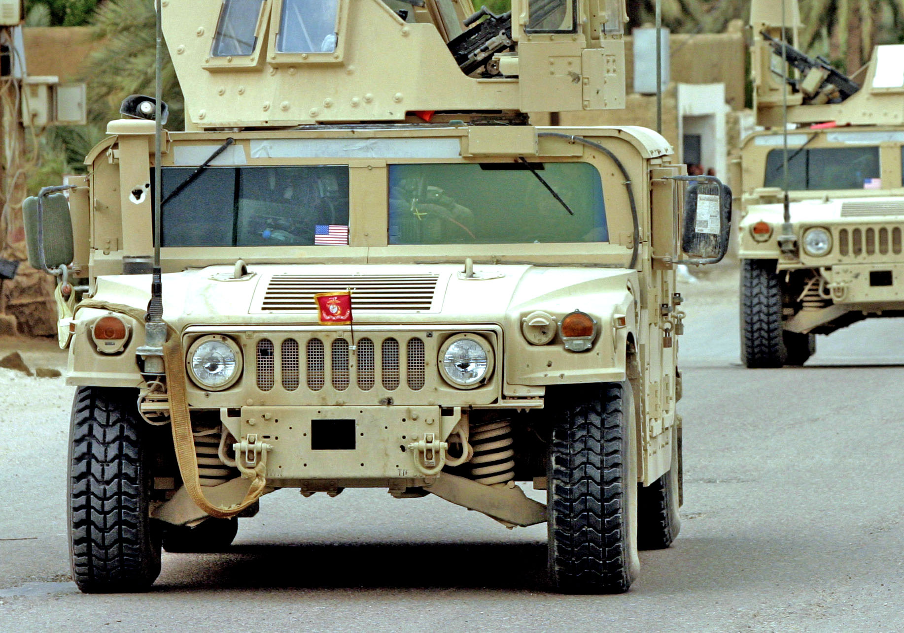 Marine Corps HMMWVs of 1st Battalion, 3rd Marine Regiment (1/3), roll through Hadithah, Iraq, during a vehicle patrol. 1st Battalion, 3d Marines is deployed with Regimental Combat Team 2, II Marine Expeditionary Force (FWD) in support of Operation Iraqi Freedom in the Al Anbar Province of Iraq (MNF-W) to develop the Iraqi Security Forces, facilitate the development of official rule of law through democratic government reforms, and continue the development of a market based economy centered on Iraqi Reconstruction. (U.S. Marine Corps photo by Cpl Stephen M. Kwietniak) (Released)